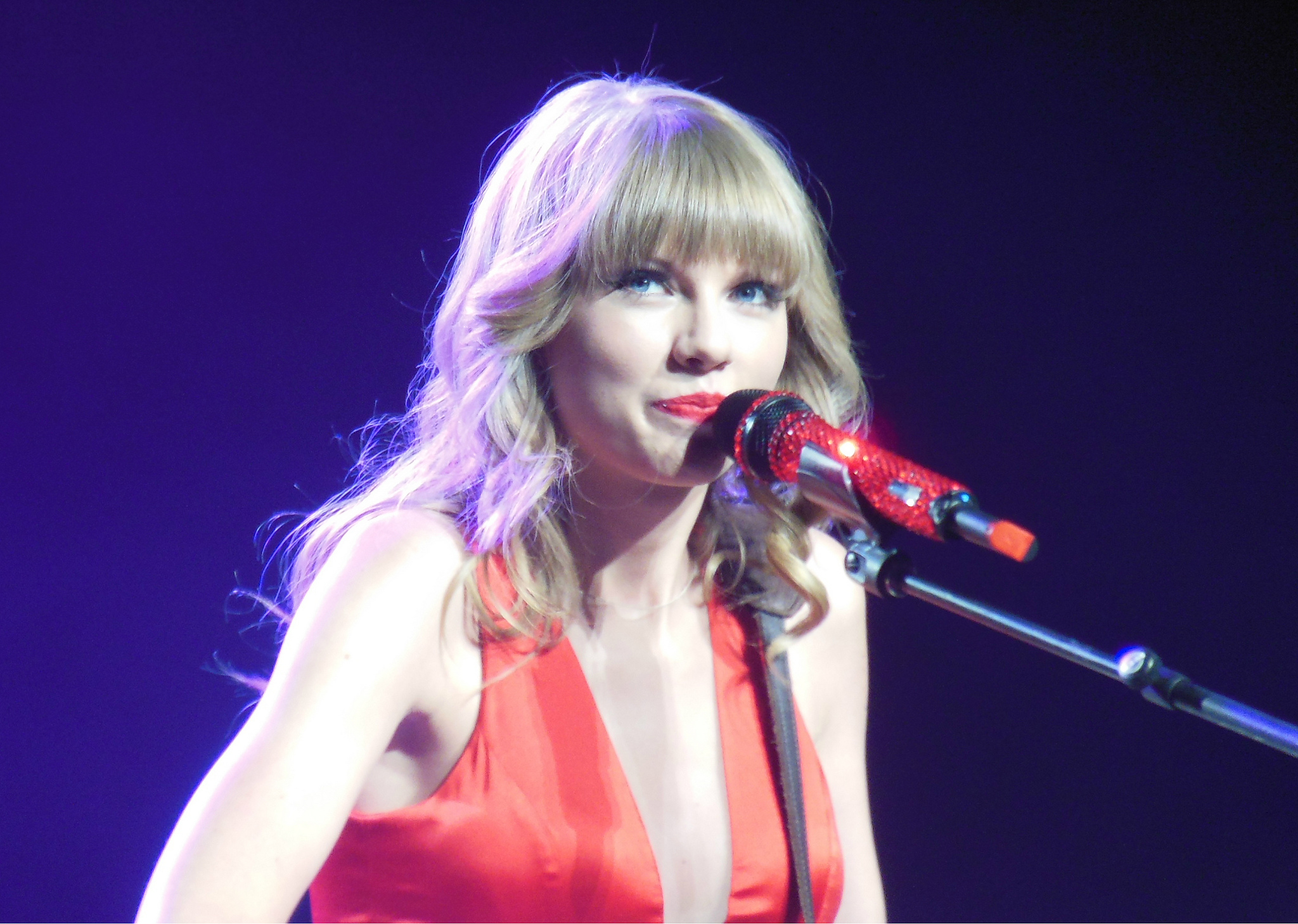 Taylor Swift during the Red Tour, March 2013